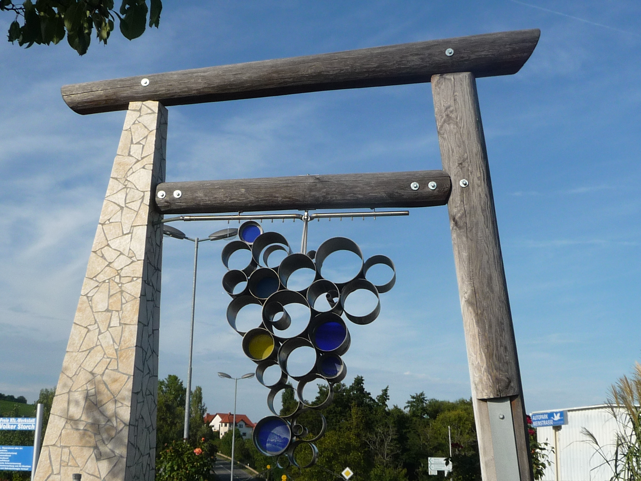 Asselheim ist ein Stadtteil von Grünstadt im Landkreis Bad Dürkheim in Rheinland-Pfalz.